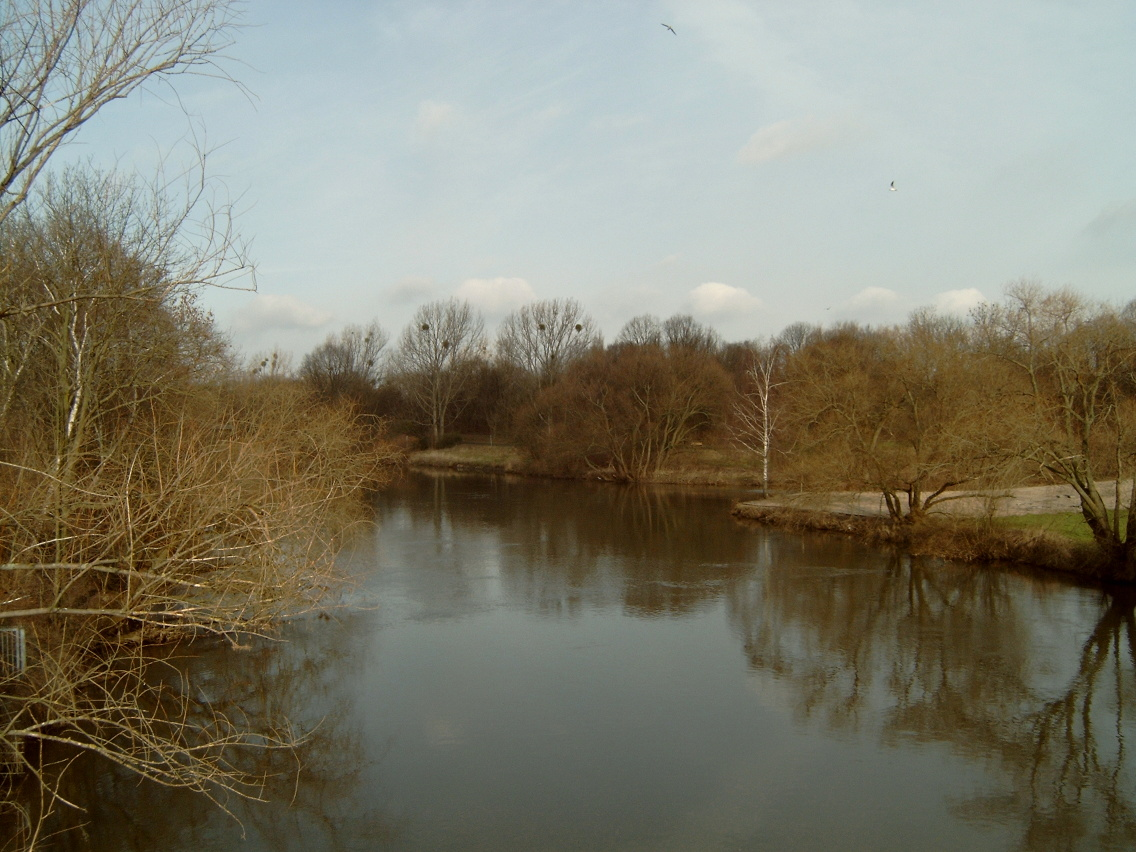 The Ihme flow into the Leine at the “Leinedreick“ in Hanover (Germany)